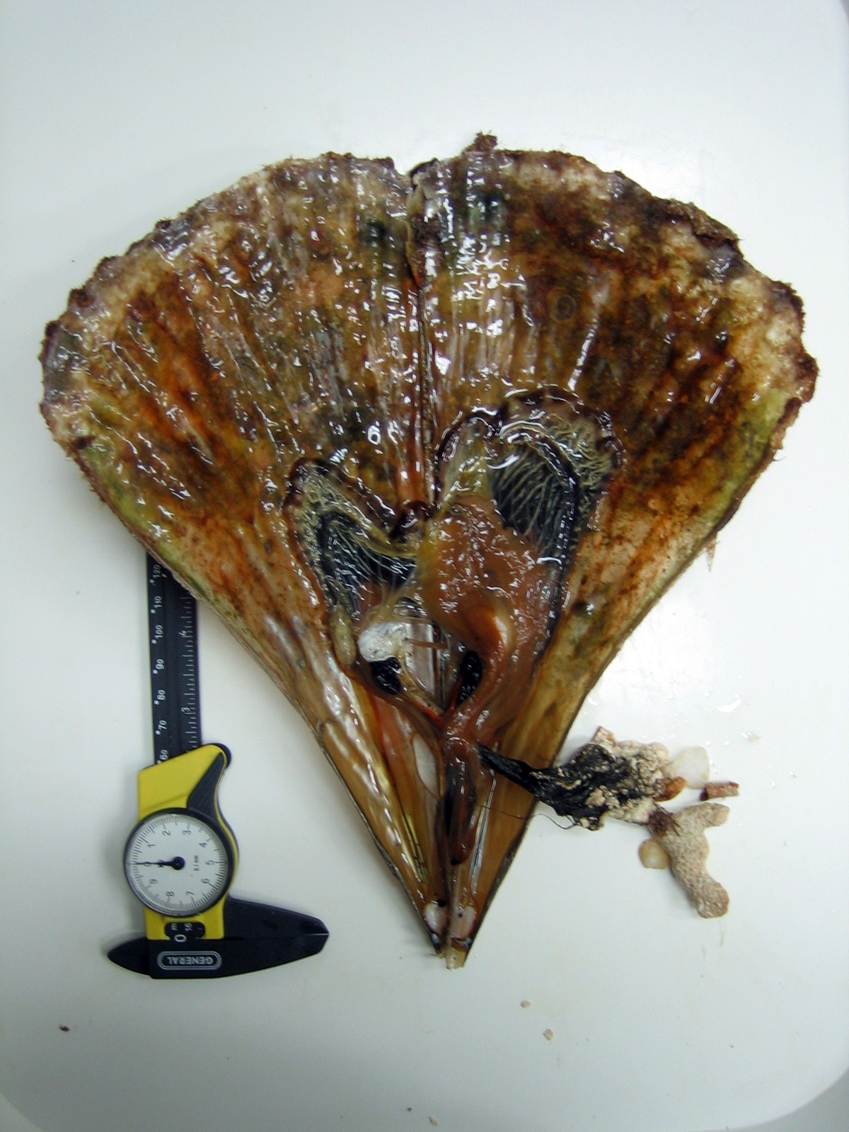 open penshell from Jaragua National Park, Dominican Republic